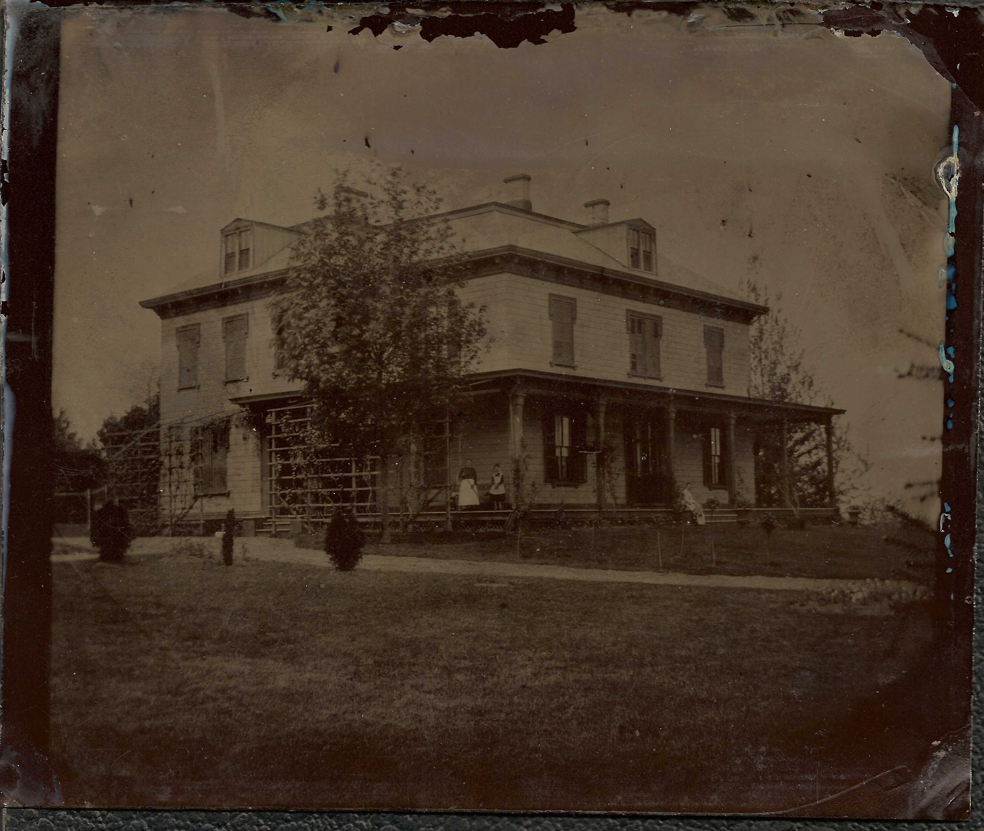 This decayed tintype shows "Hillside Manor" in the 1870s. The house, sited on high point not far from the Great Chestnut Tree in Woodside, lay on nine acres of land with gardens laid out by Frederick Law Olmsted. Owned by Louis Windmuller, German immigrant, New York merchant, financier, and philanthropist, the estate was one of the last in Woodside to be sold for development. In the late 1930s the family sold about half the land for multistory apartment buildings and donated the other half to the City for a park, to be called Windmuller Park.